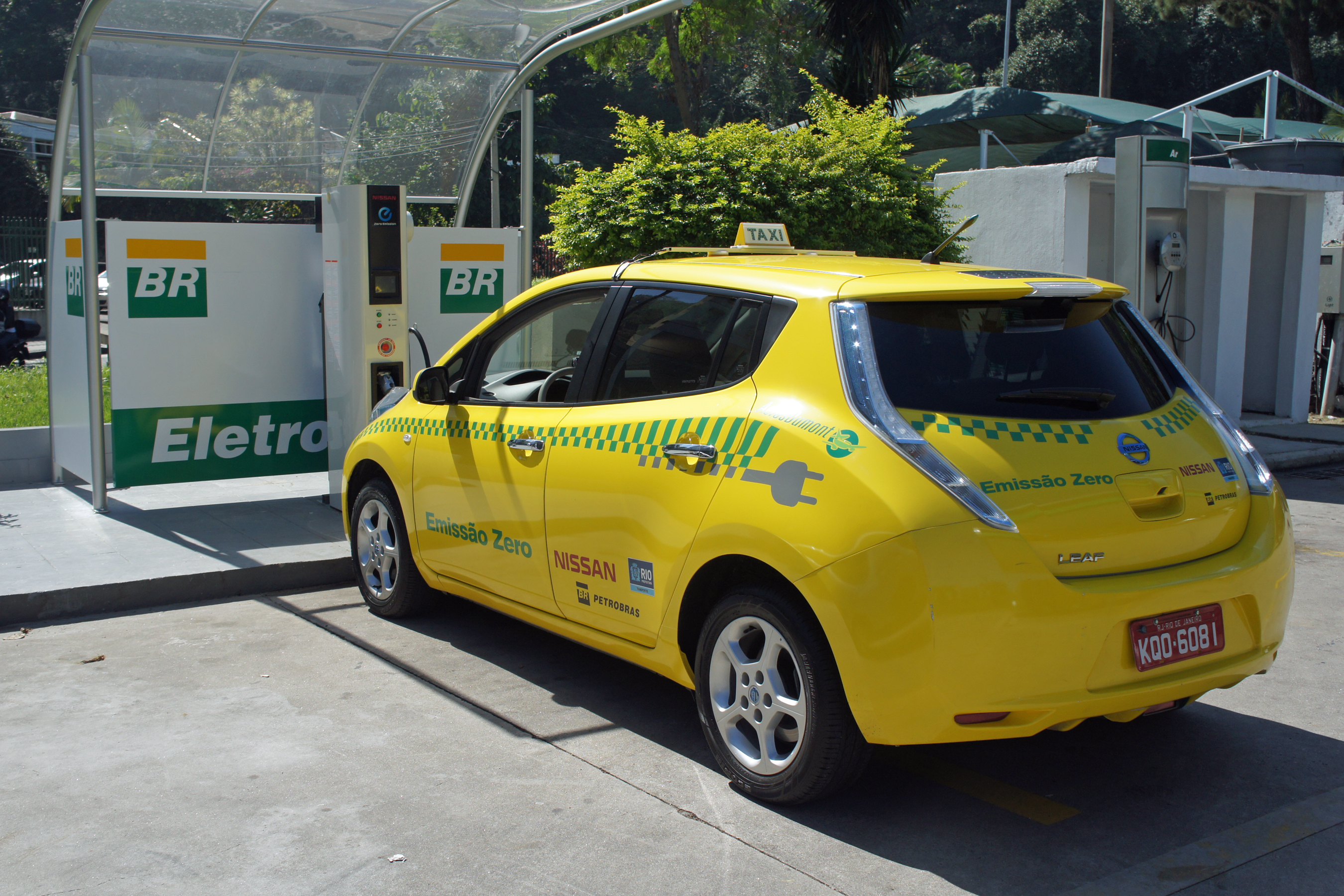 Nissan Leaf electric car operating as taxi in Rio de Janeiro, Brazil